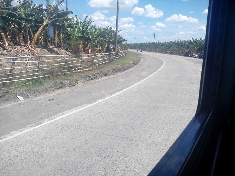 Davao del Norte Circumferential Road, Sto. Tomas-Panabo leg, Sto. Tomas, Davao del Norte, Philippines